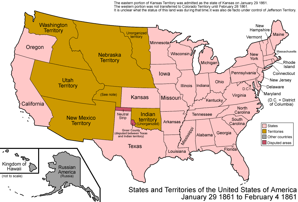 Map of the states and territories of the United States as it was from January 1861 to February 4 1861. On January 29 1861, the eastern portion of Kansas Territory was admitted as the state of Kansas; the western portion seems to have had no official definition for roughly a month, as it was not transferred to Colorado Territory until February 28 1861. During this period, it was de facto under the control of the self-proclaimed Territory of Jefferson. On February 4 1861, the Confederate States of America was created. Several states had seceded from the union on dates prior to this, and joined the CSA at different dates. To simplify the map, only the proclamation of the CSA is noted here.